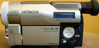 Hitachi Digital8 camcorder. Picture free to use, from my web site at *Please see Image talk:Vr2020.jpg for email communication. --Colin99 18:49, 20 January 2006 (UTC)